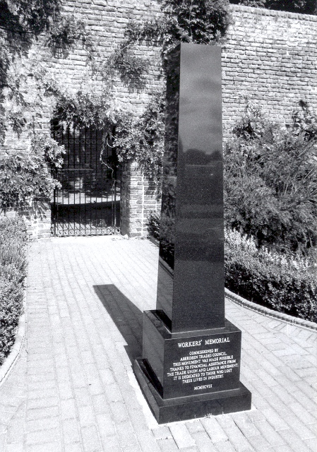 Workers' Memorial. "Commissioned by Aberdeen Trades Council, this monument was made possible thanks to financial assistance from the Trade Union and Labour Movement. It is dedicated to those who lost their lives in industry. MCMXCVIII"